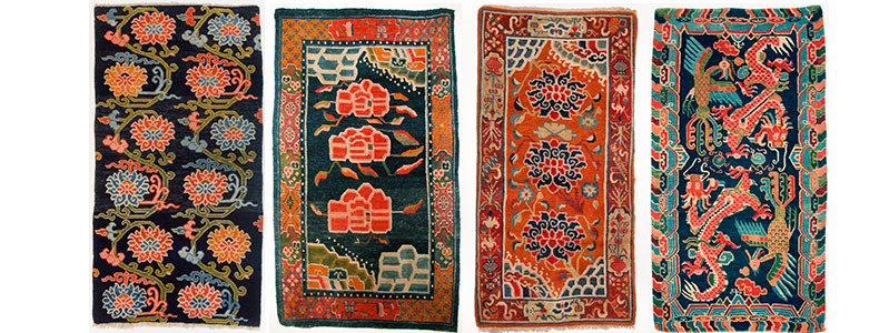 examples of Tibetan rug designs from 1900 - 1930, approximately